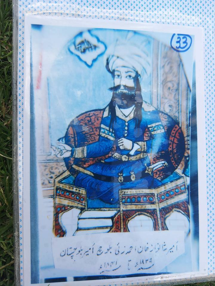 Mir Shah Nawaz Khan Baloch